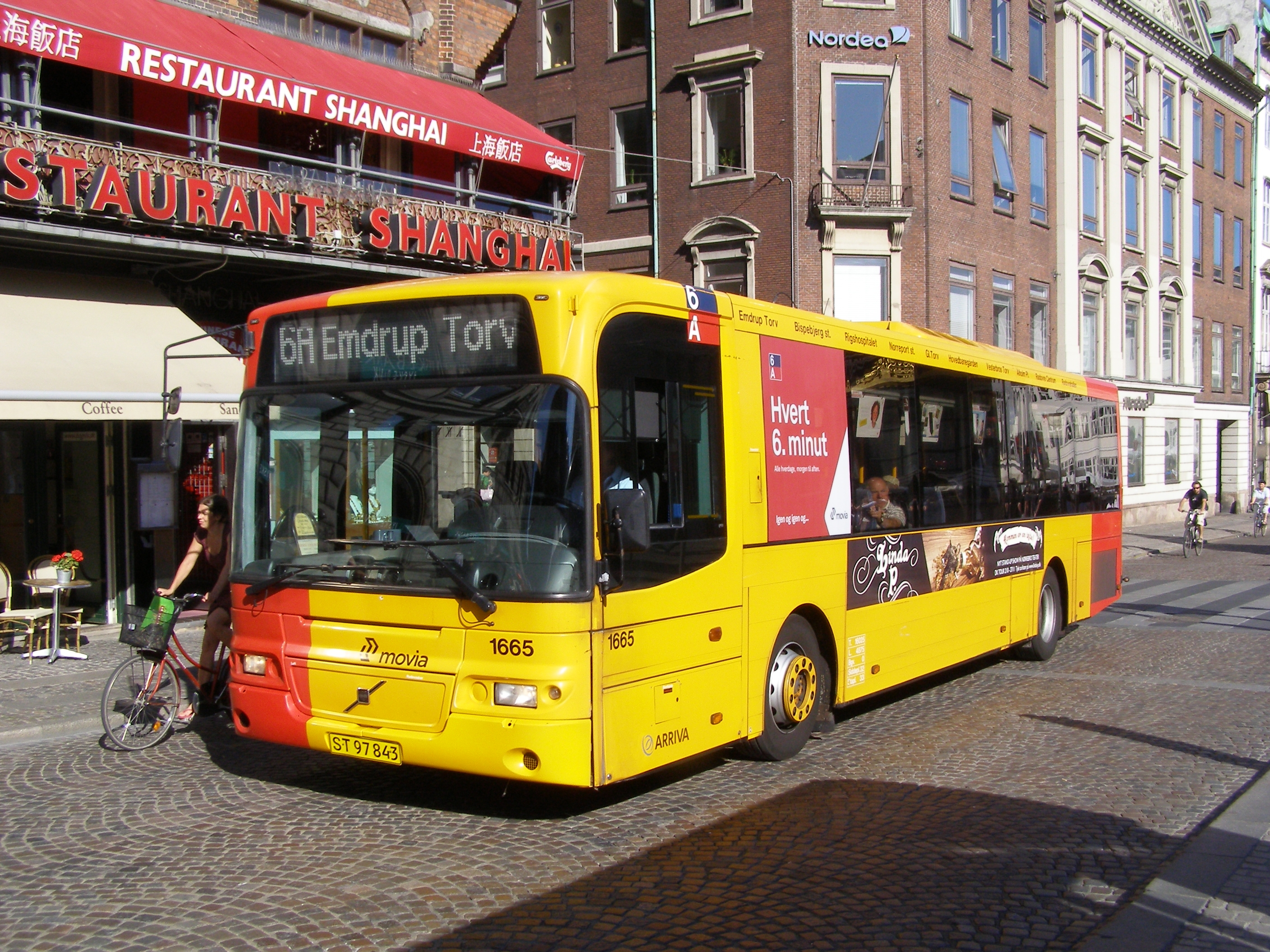 Copenhagen - Volvo 8500LE bus #1665 on line No. 6A